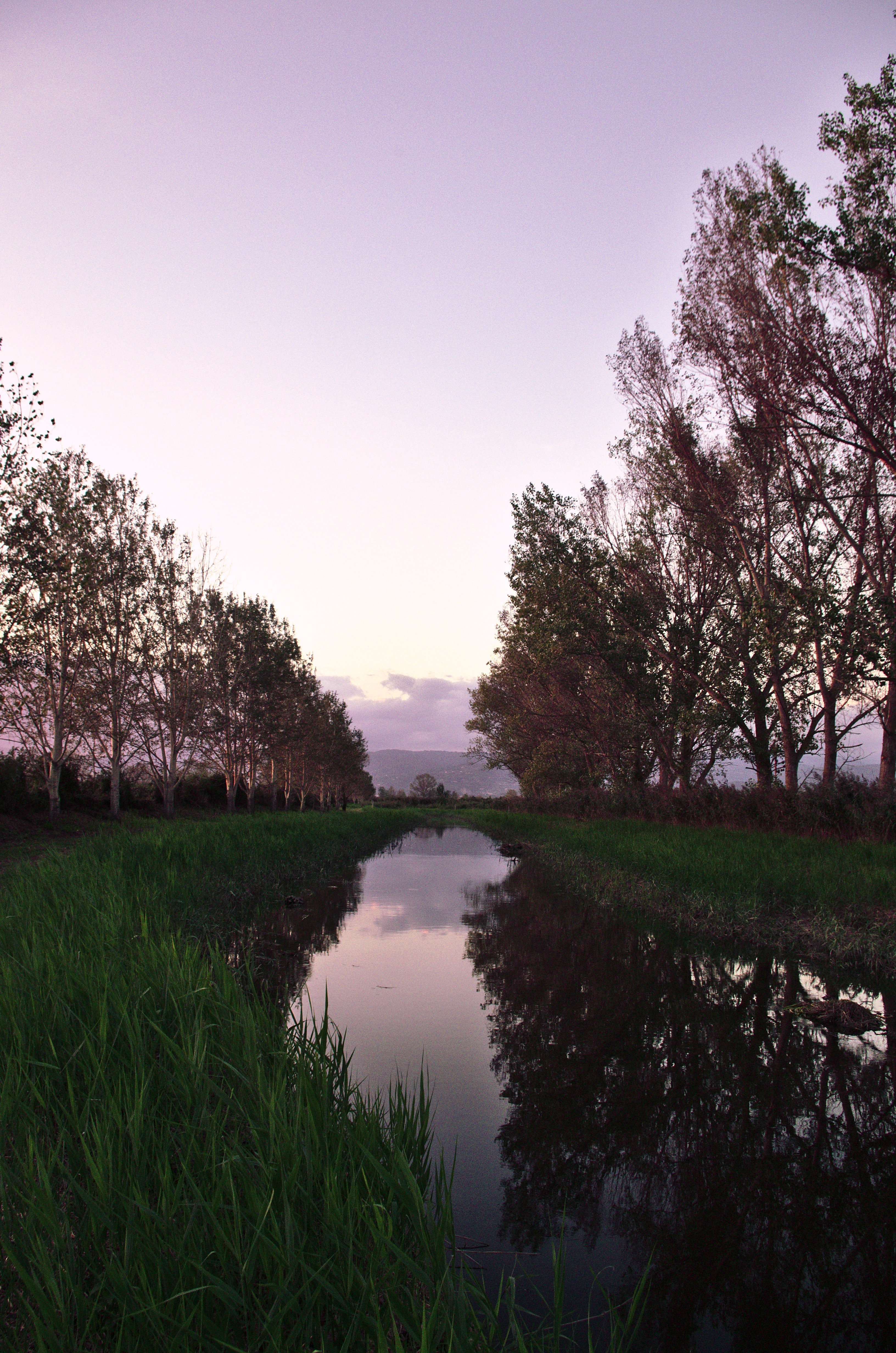 View from Fucecchio swamp (Larciano, PT) at sunset